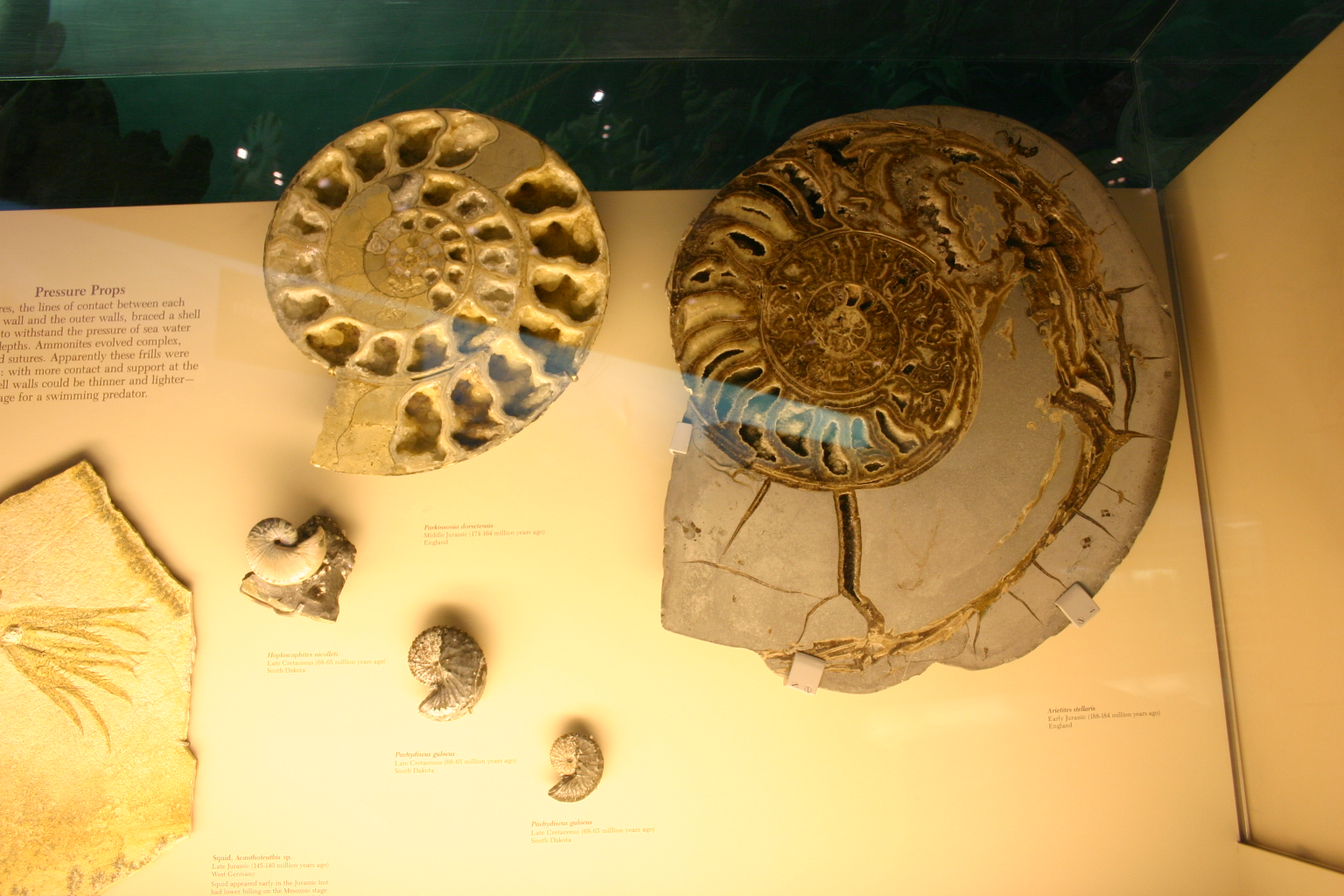 Large ammonites: Parkinsonia dorsetensis (left), Arietites stelaris (right). Small ammonites: Hoploscaphites nicoletti and two Pachydiscus gulocus (left to right).